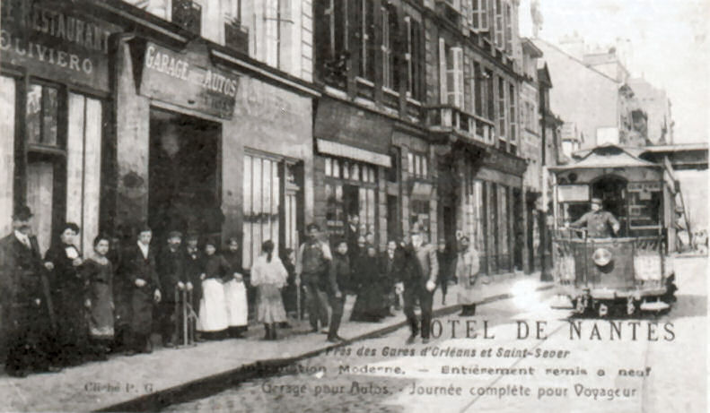 Tramway de Rouen - Rive gauche